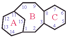 Diagram showing the IUPAC system of the numbering of taxane ring system